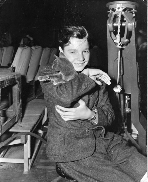 Publicity photograph of Heimo Haitto, 15, at the film set of The Hard-Boiled Canary (Paramount Pictures) with a cat.